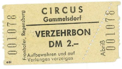 voucher of the Circus Gammelsdorf, Gammelsdorf